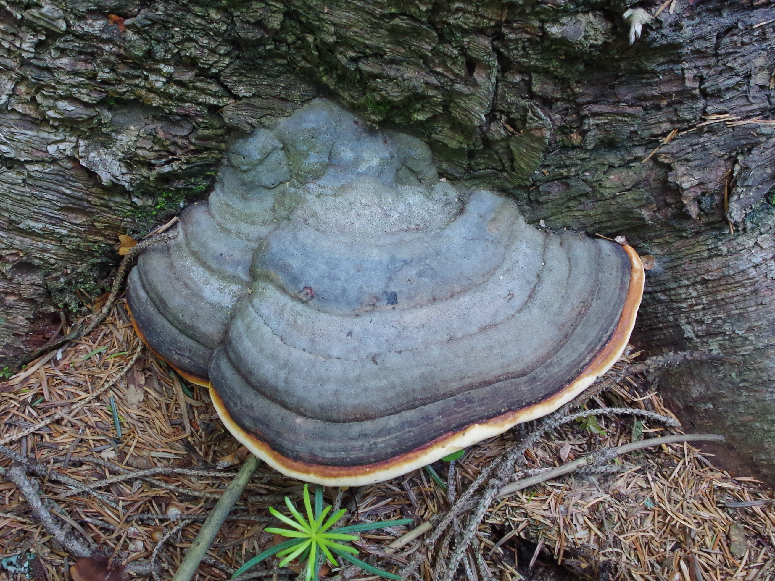 Fomitopsis pinicola on Abies alba (location: Poland, Gorce)